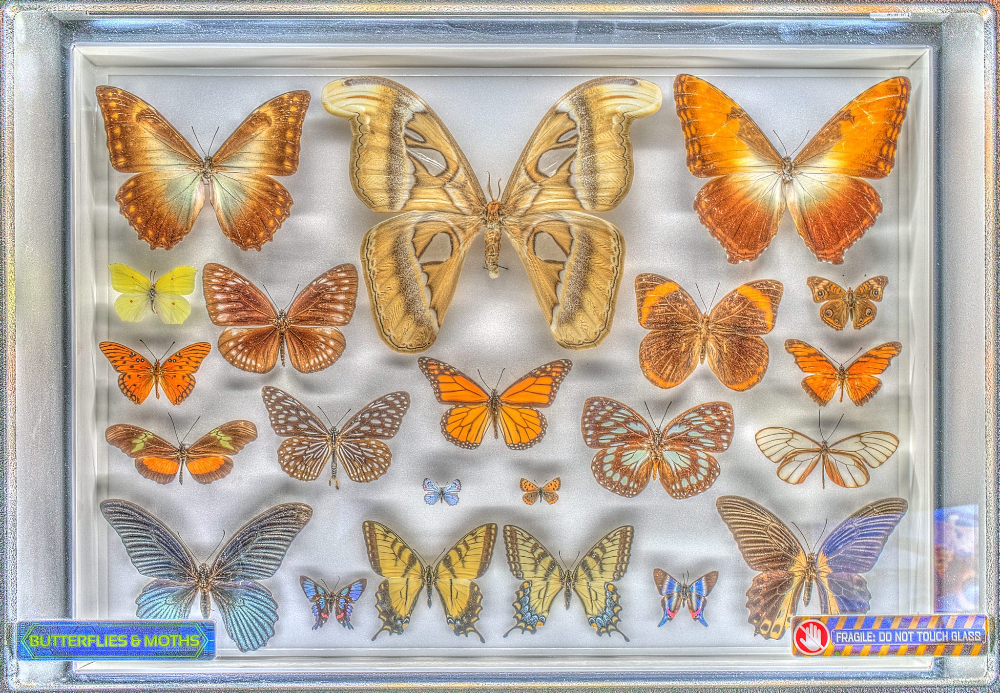 detail of butterflies and moths, Dr. Crawley’s Insectarium